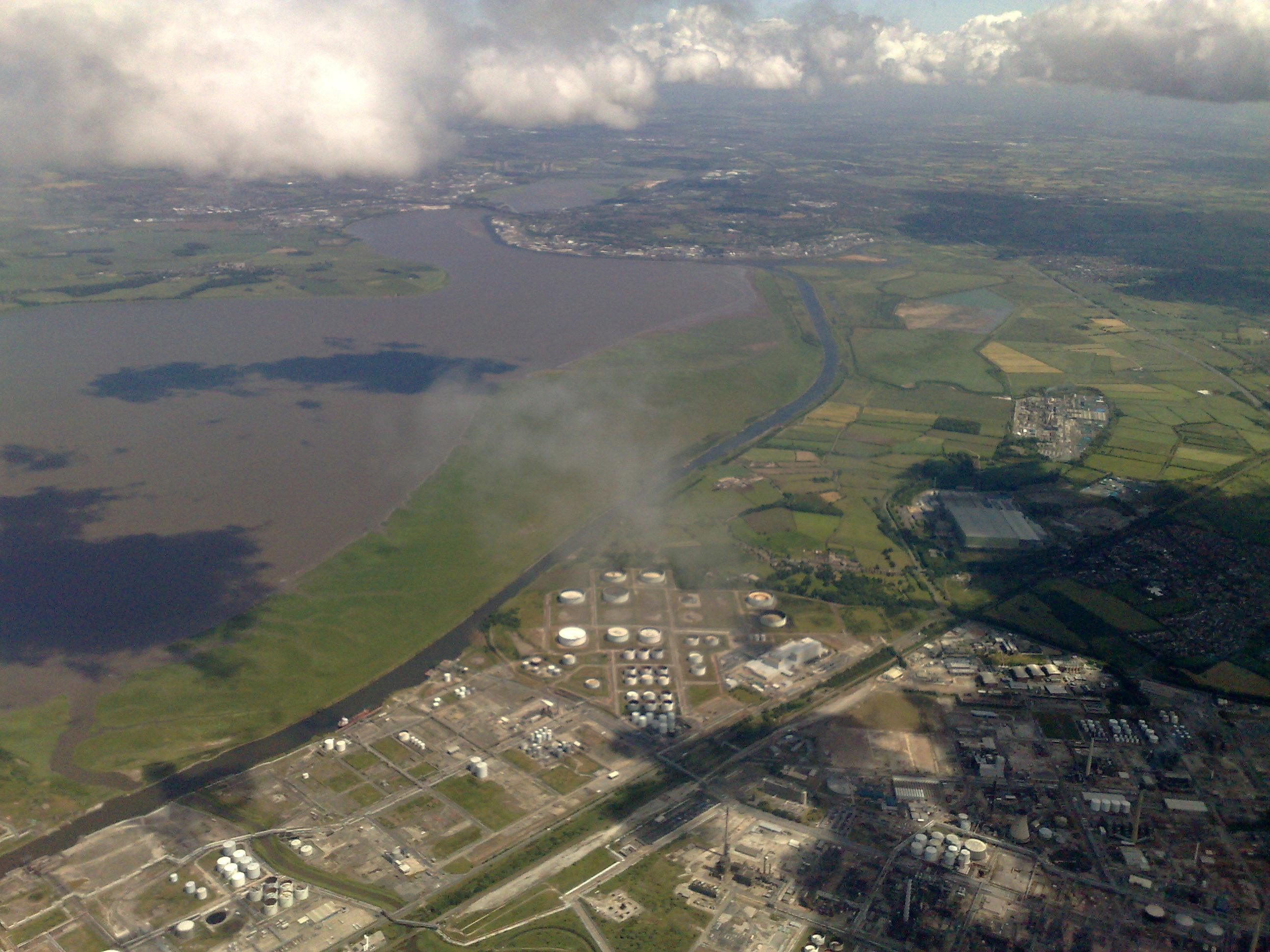 This is the ship canal alongside the Mersey, looking east as the aircraft heads south from Liverpool Airport.